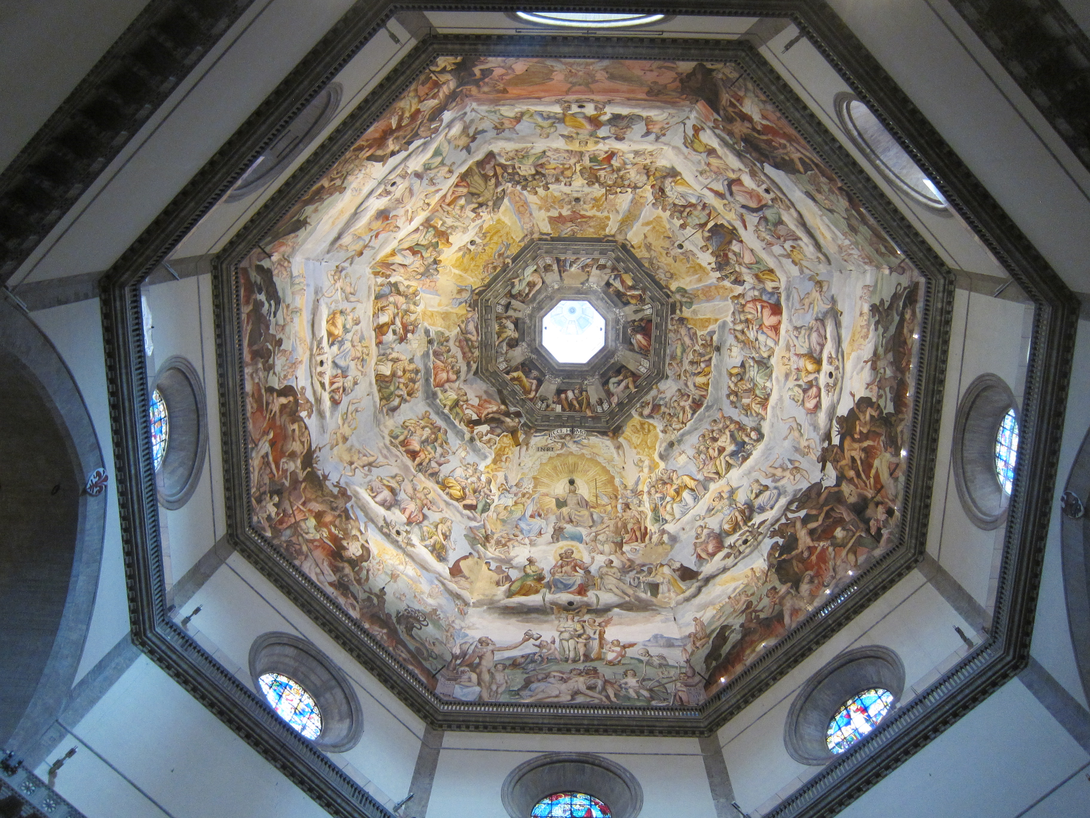 see above